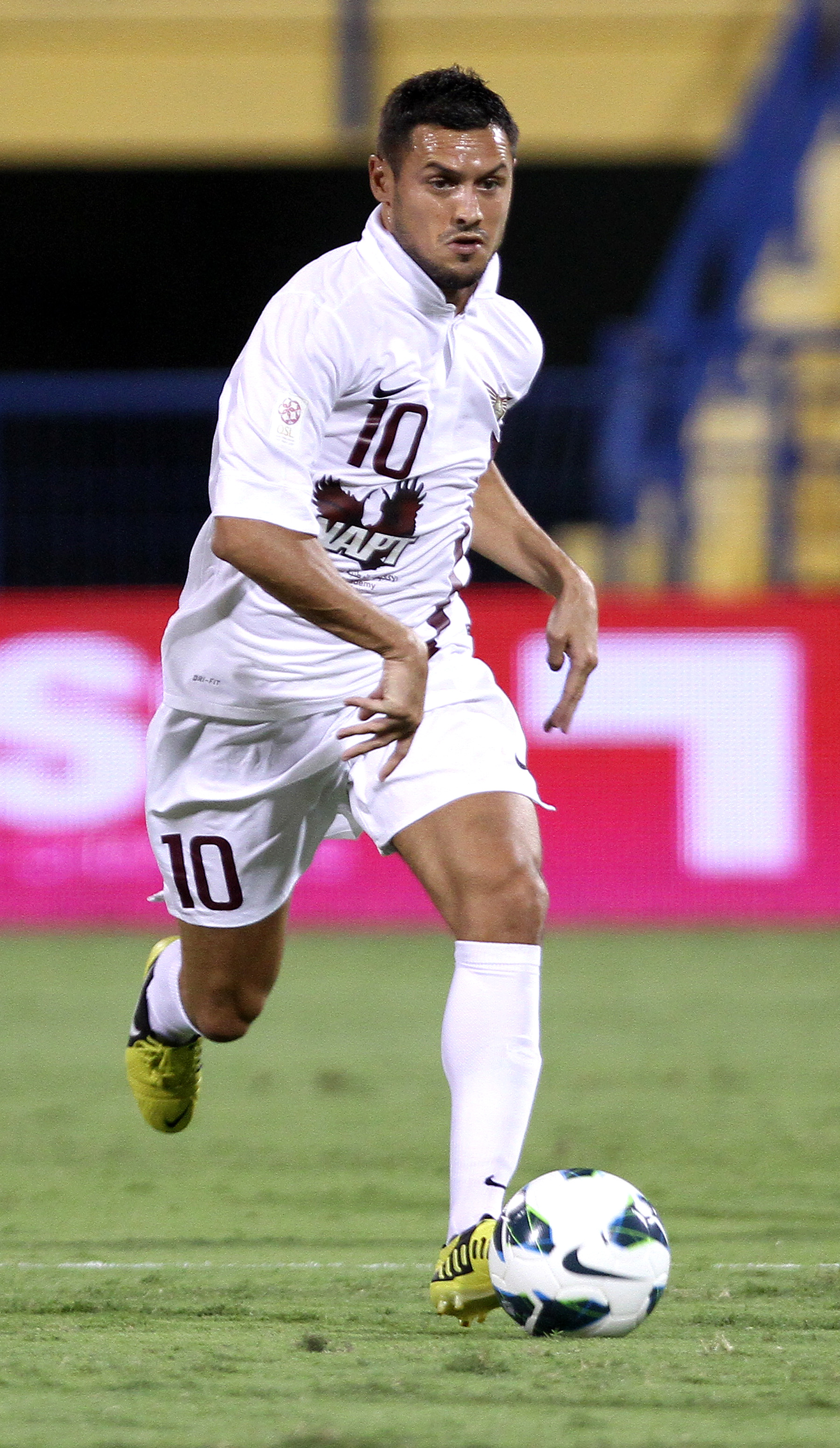 El Jaish's Algerian professional Karim Ziani controls the ball during a Qatar Stars League match. Picture by Vinod Divakaran